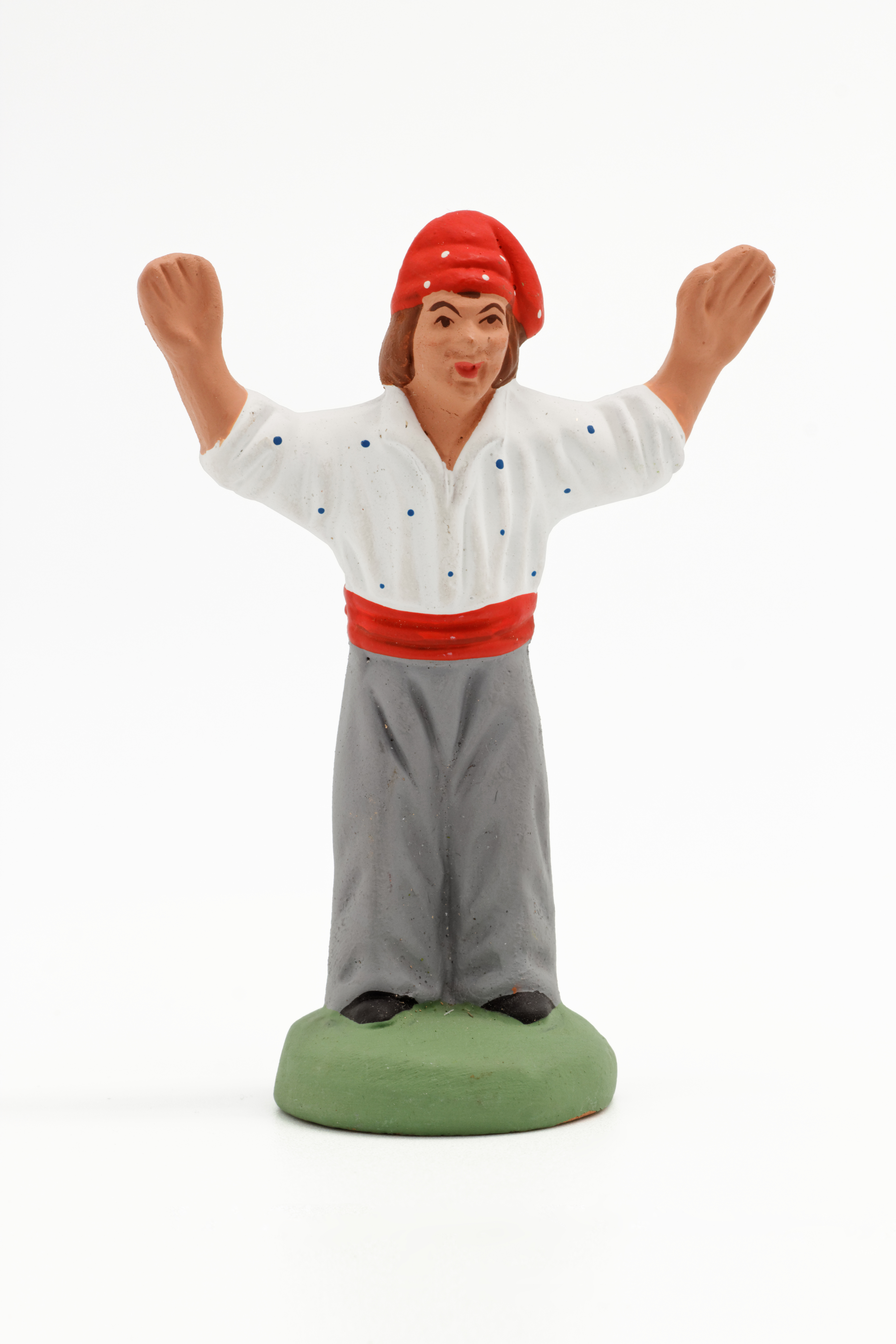 Le Ravi, traditionnal santon of Provence by Escoffier